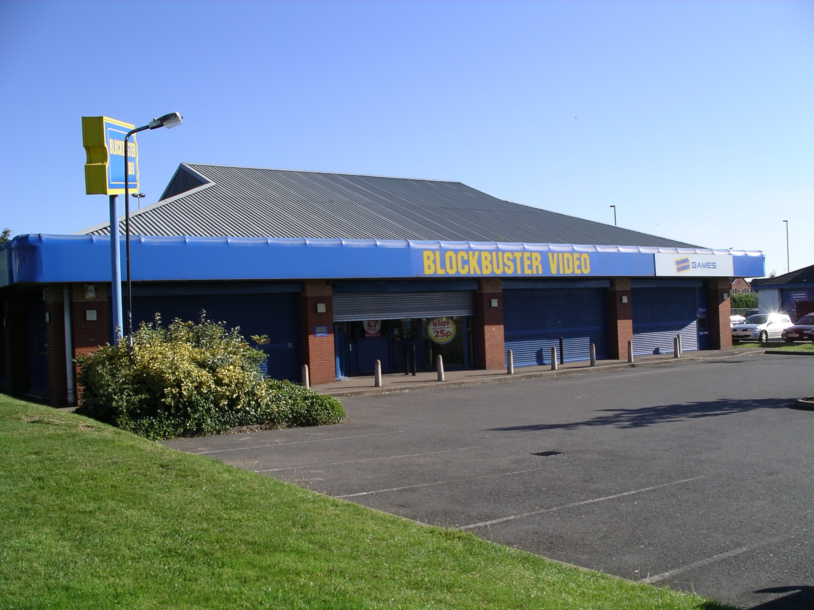 A Blockbuster shop in Coventry, England.